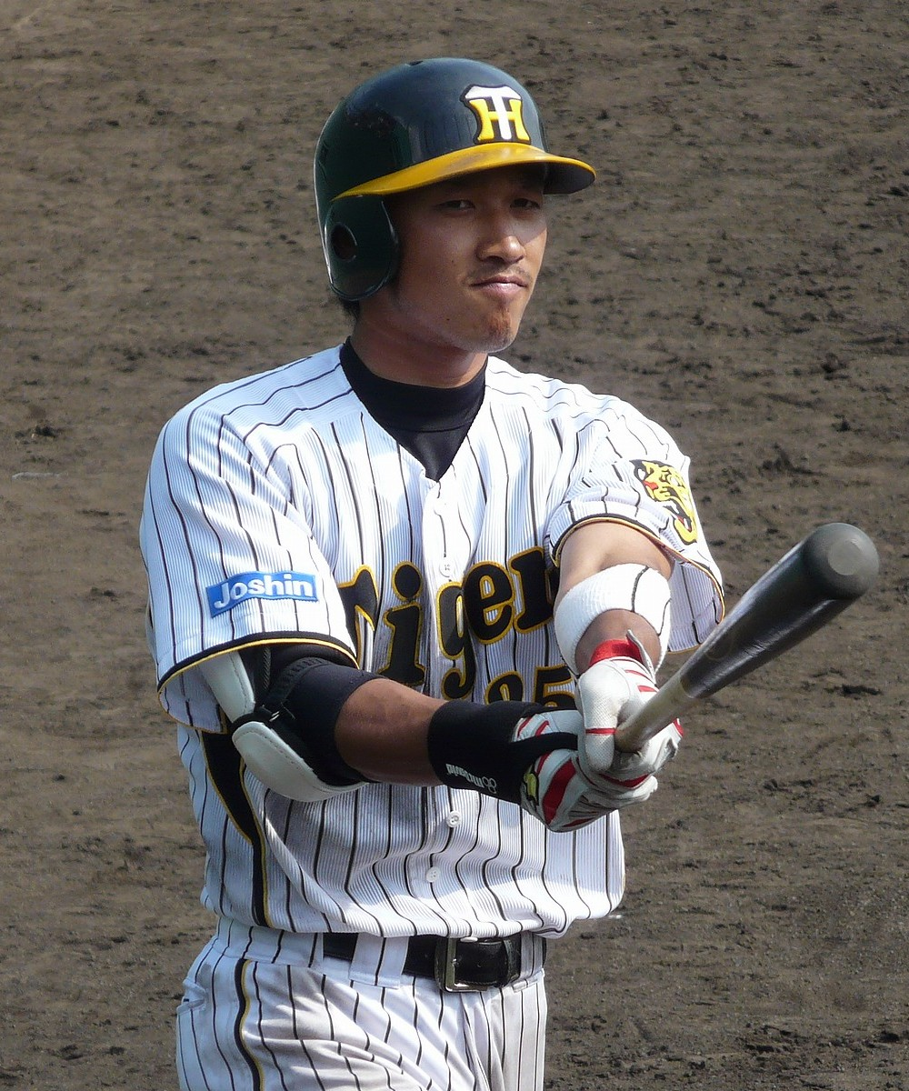 Katsuhiko Saka, infielder of the Hanshin Tigers, at Hanshin Naruohama Baseball Ground